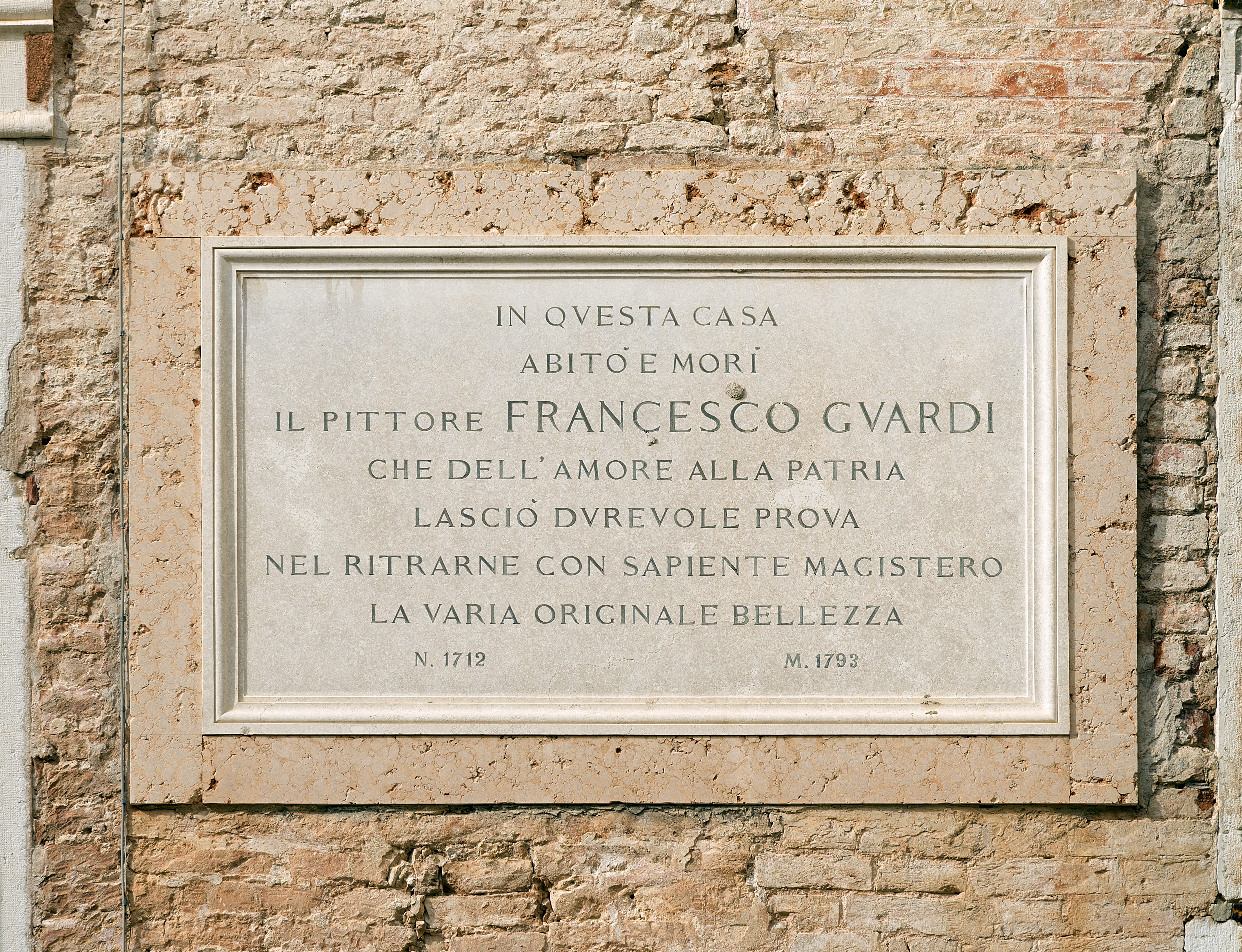 House of Francesco Guardi - Campiello de la Madona - Cannaregio – Venice, memorial plaque.